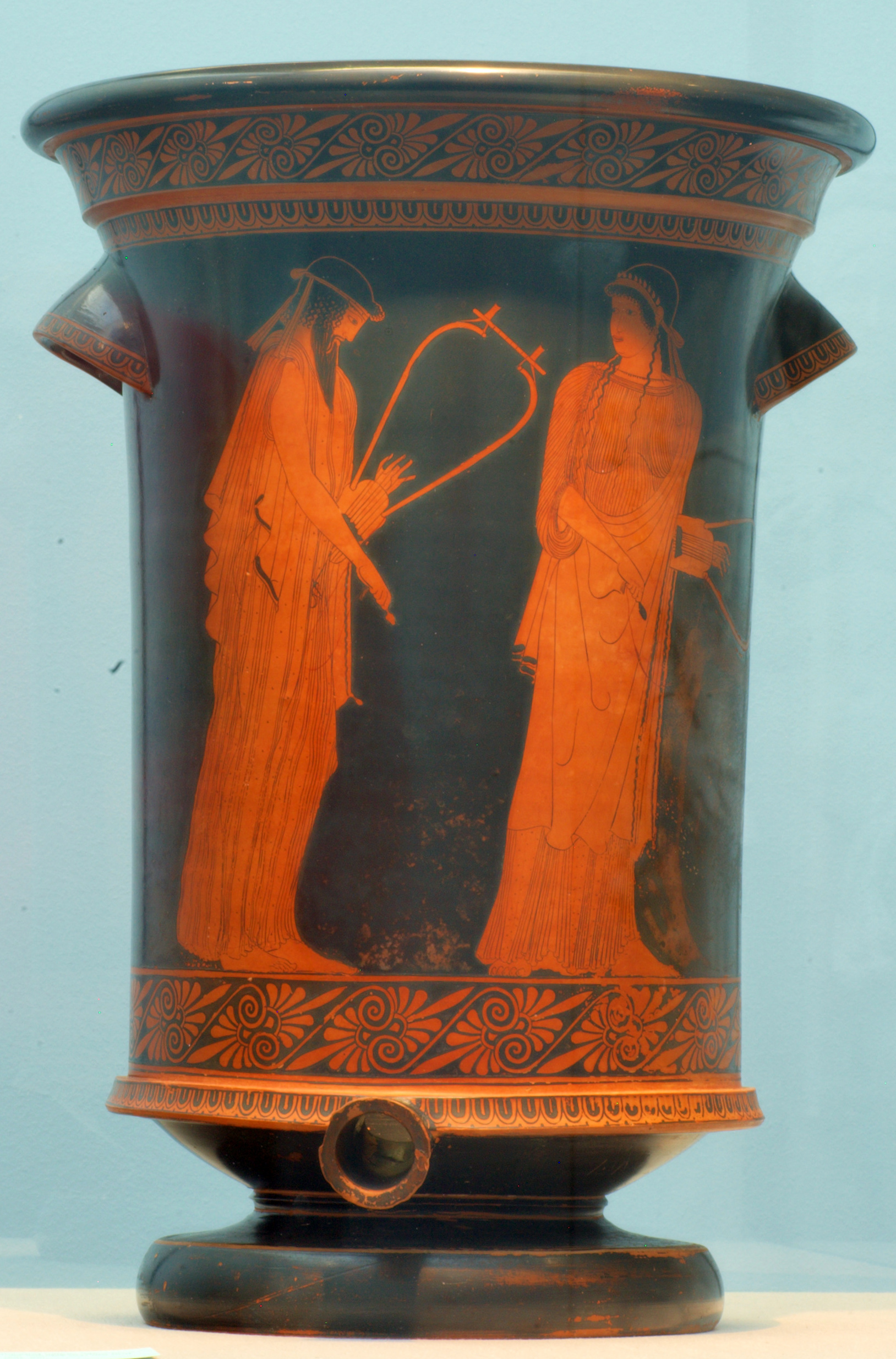 Alcaeus and Sappho. Side A of an Attic red-figure kalathos, ca. 470 BC. From Akragas (Sicily).